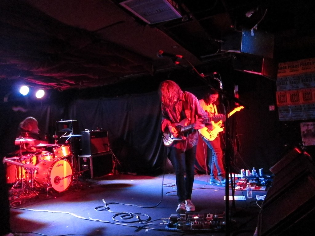 Peace performing in Denver in 2013